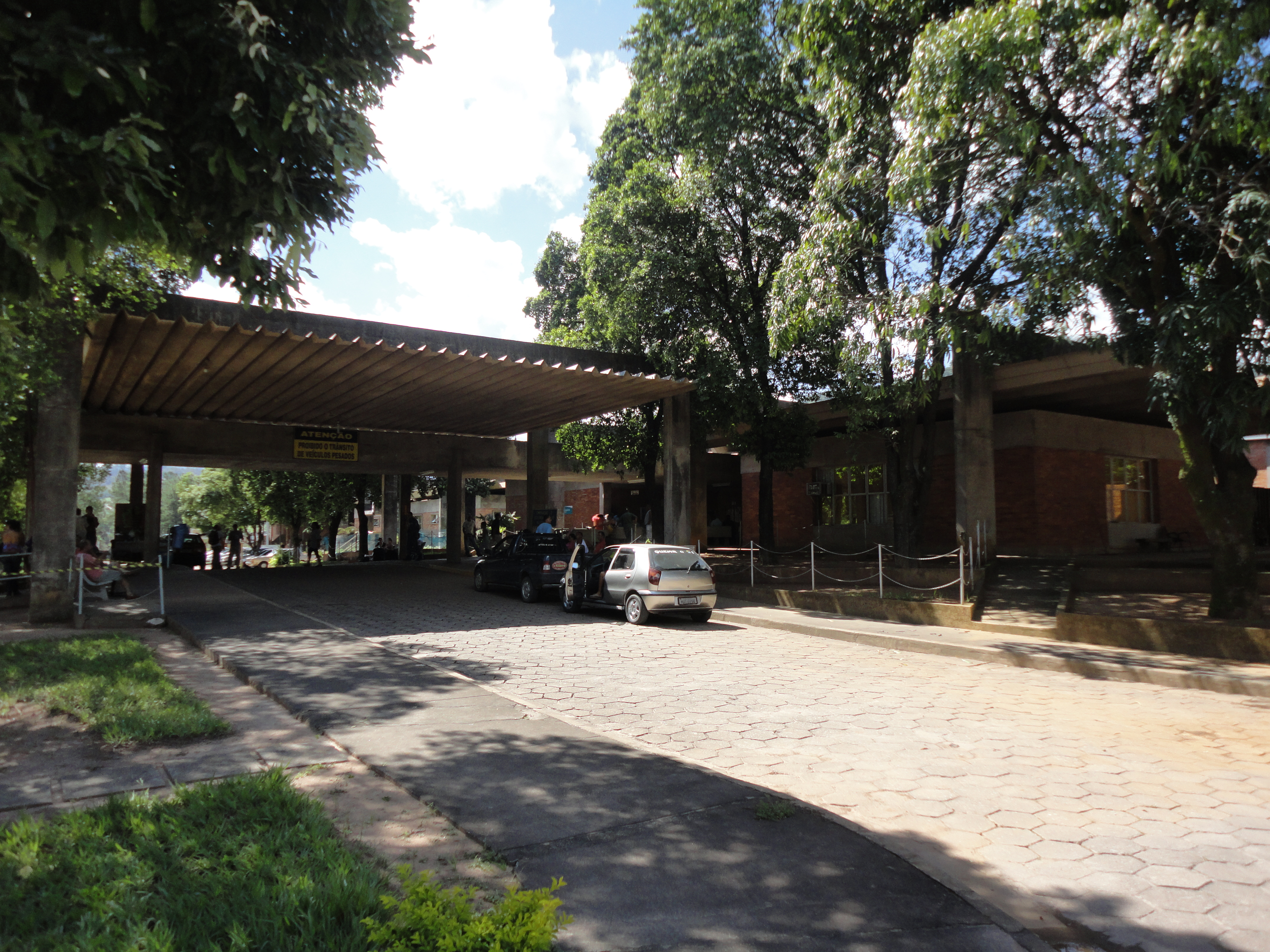 View of the Mário Carvalho train station, in Timóteo, Minas Gerais, Brazil.